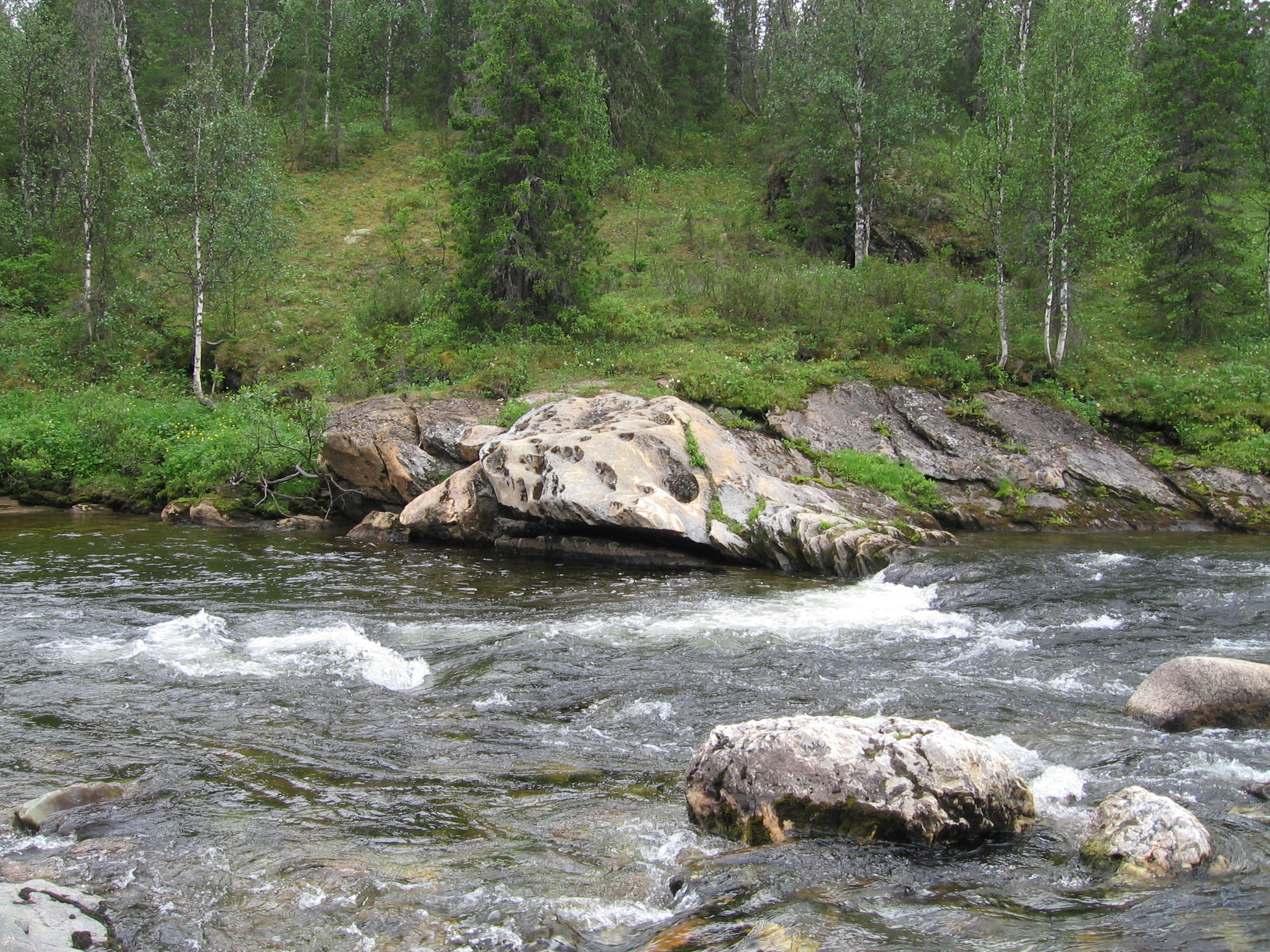 Shekuria River, Khanty-Mantsiya, 64°29'41"N 60°1'31"E. Trees are Picea obovata (dark green) and Betula pendula (light green with white bark).